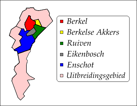 The village Berkel-Enschot, in the Netherlands, divided into neighbourhoods.